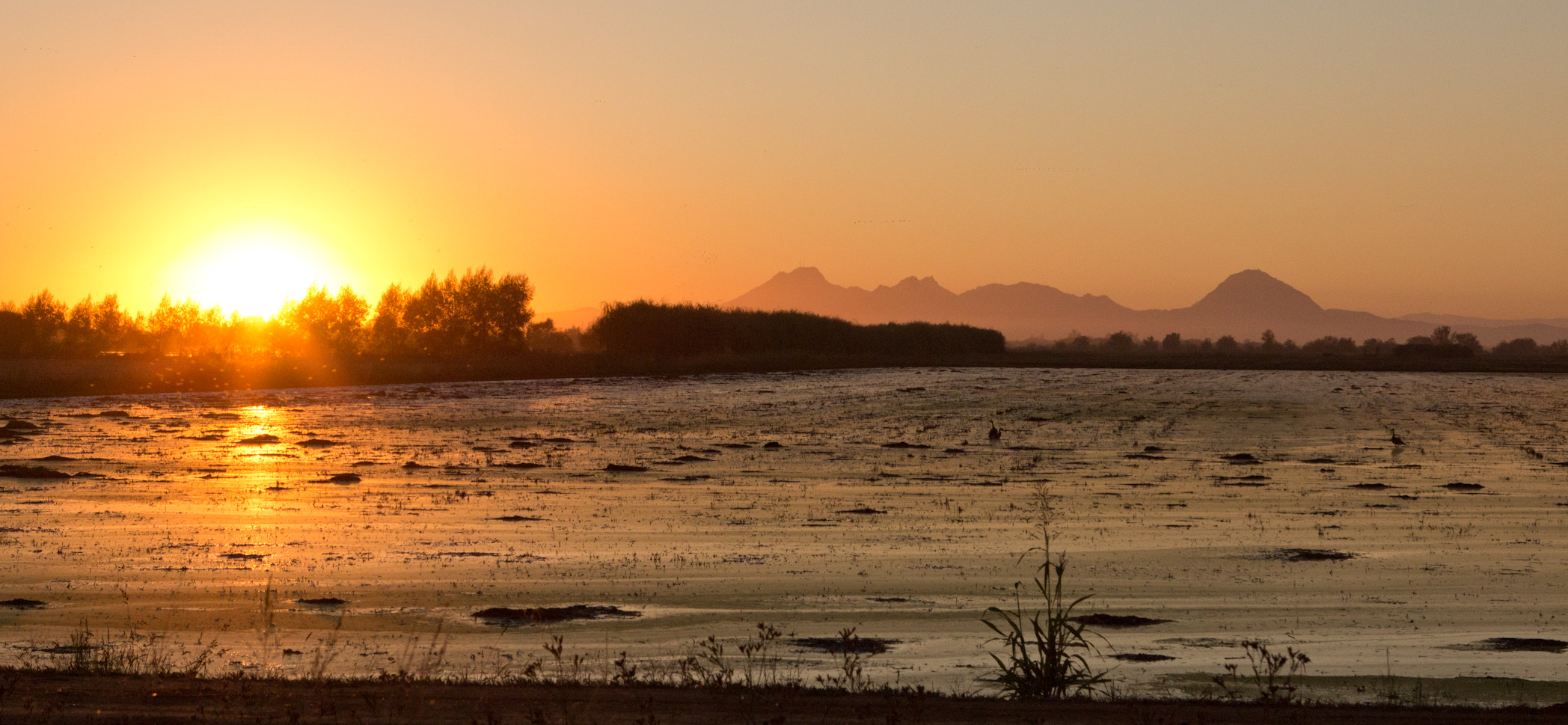 Rice Fields in Northern California taken by